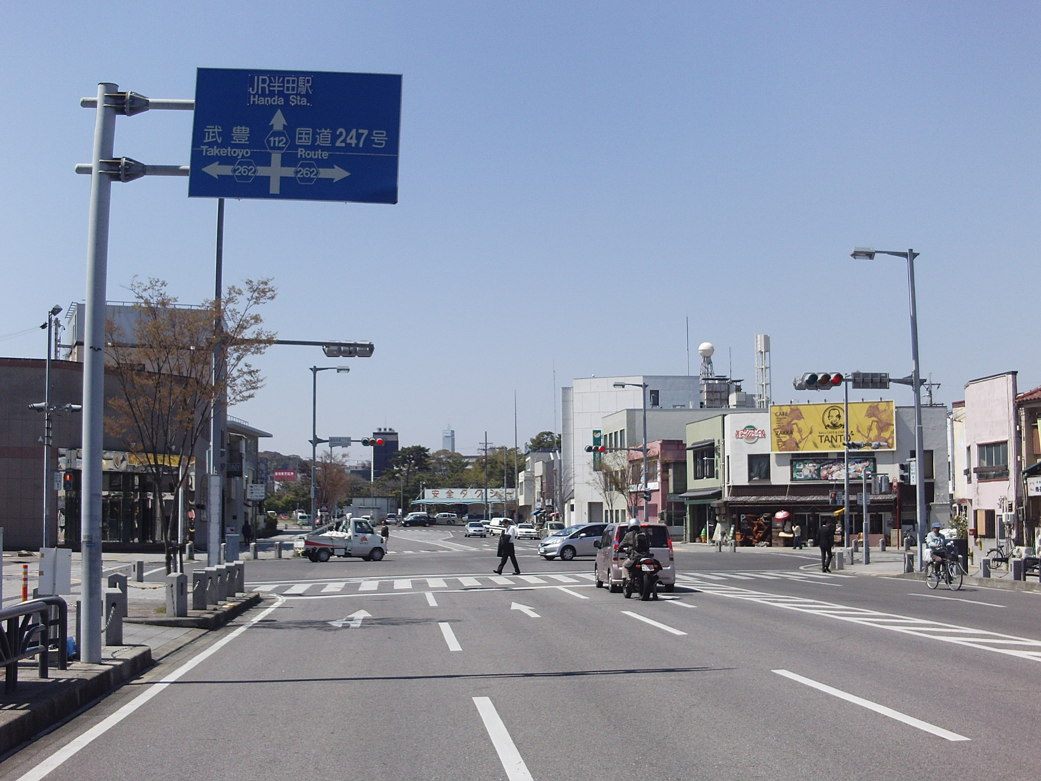 Aichi prefectural road No.112 in Ginzahonmachi, Handa, Aichi.